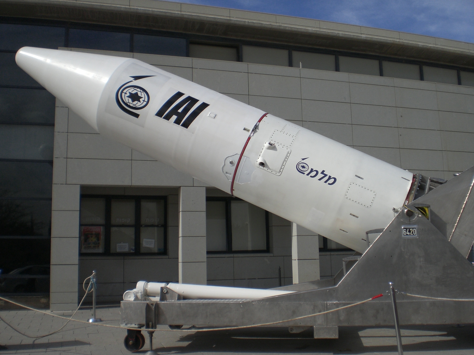 Third stage of Israeli space launch vehicle Shavit